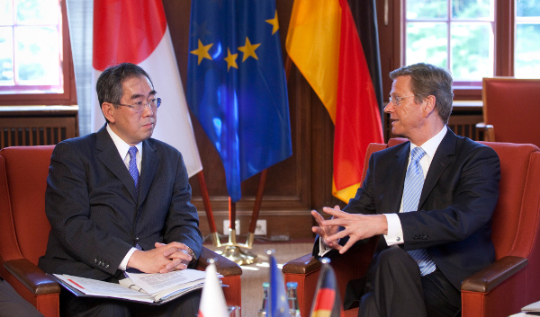 The meeting of Japanese Minister for Foreign Affairs Takeaki Matsumoto and German Foreign Minister Guido Westerwelle in Berlin.